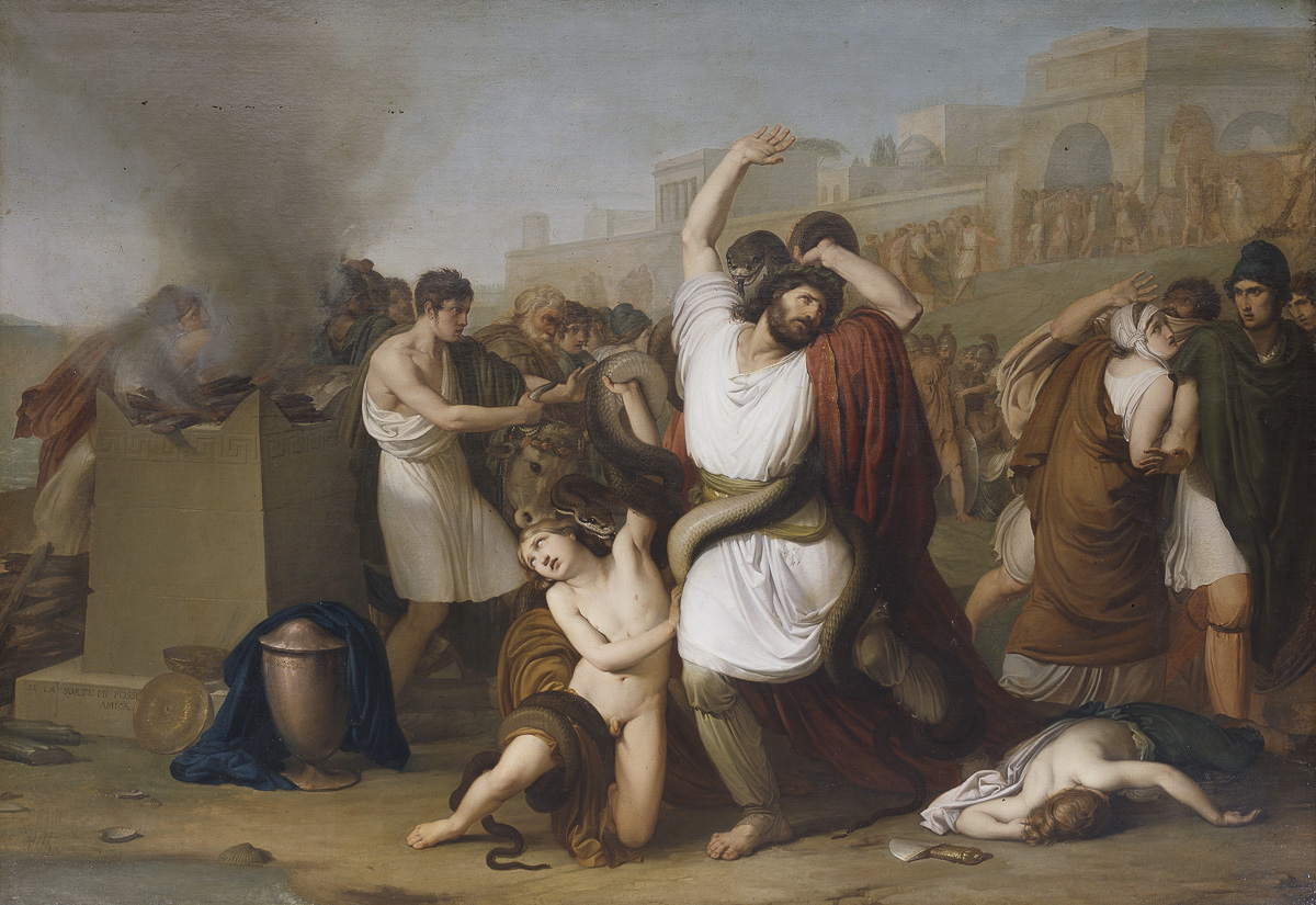 Laocoonte